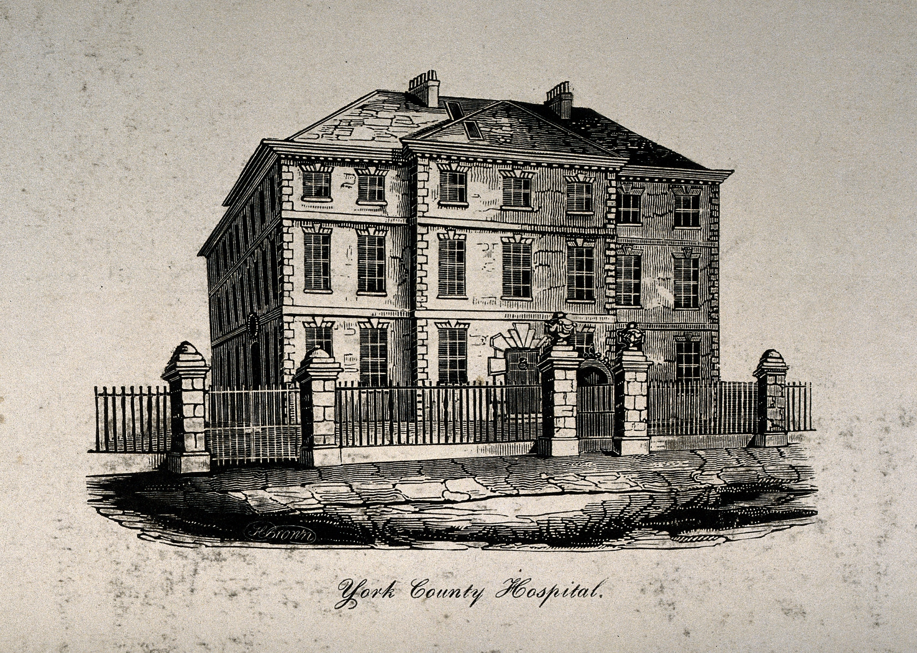 York County Hospital, York, England. Steel engraving by H. Crown. Iconographic Collections Keywords: H. Crown